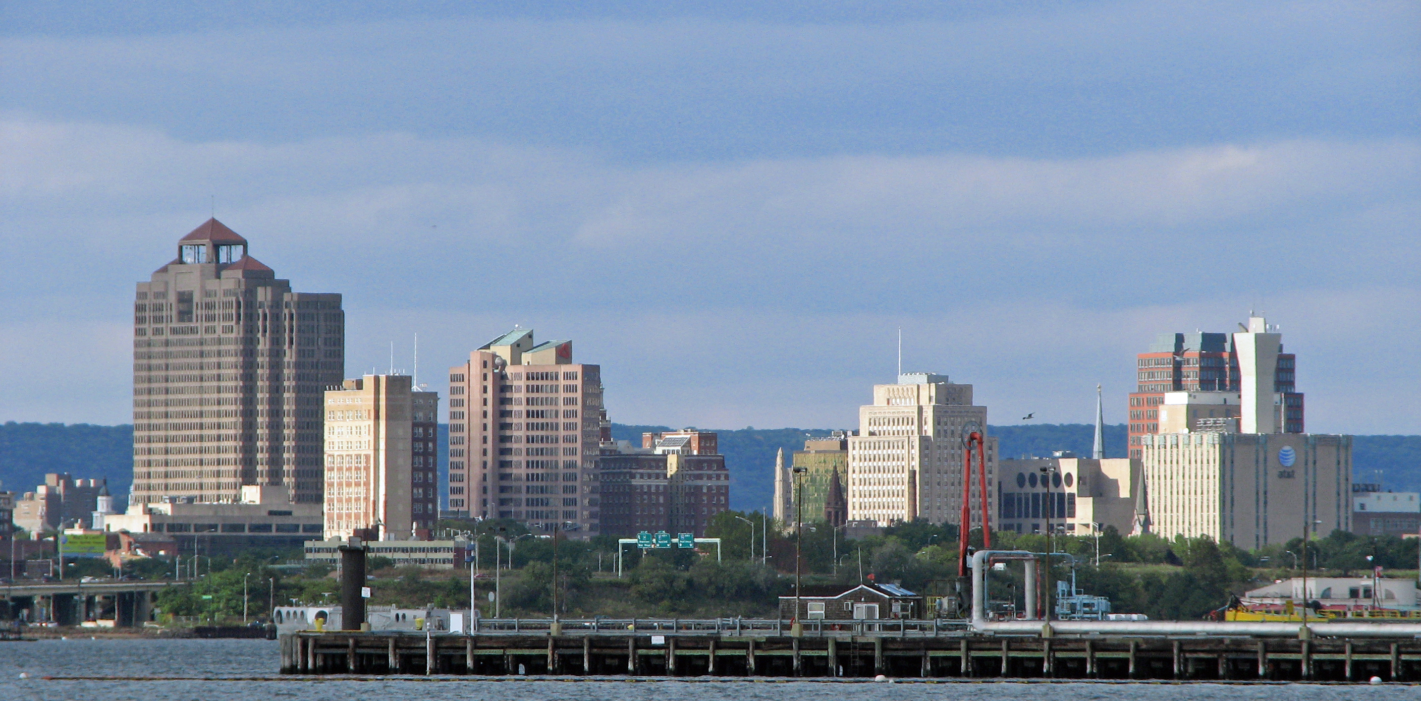 Downtown New Haven,CT Skyline from East Shore Park